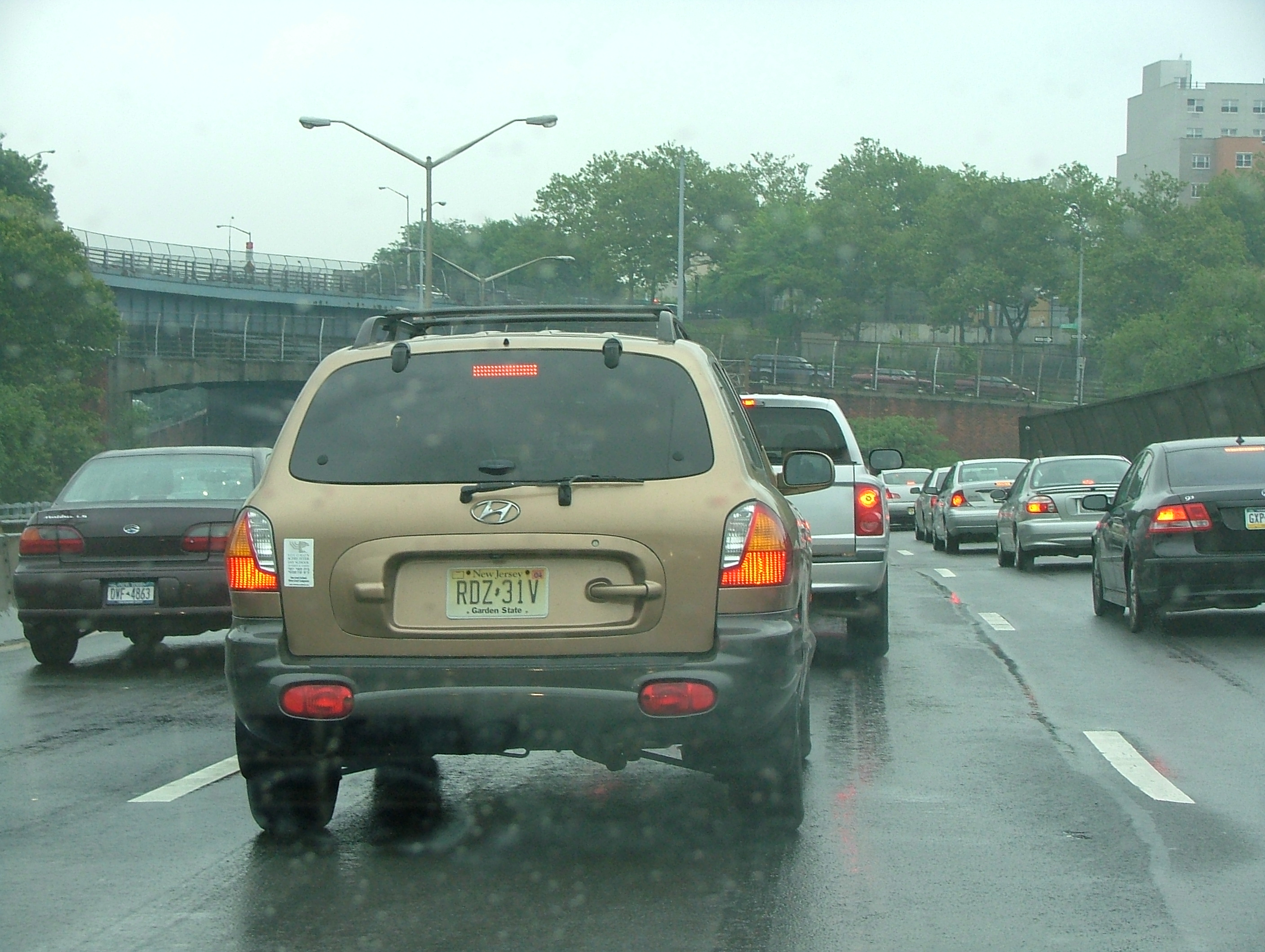 Tailback on the I-95 tru Bronx, New York.